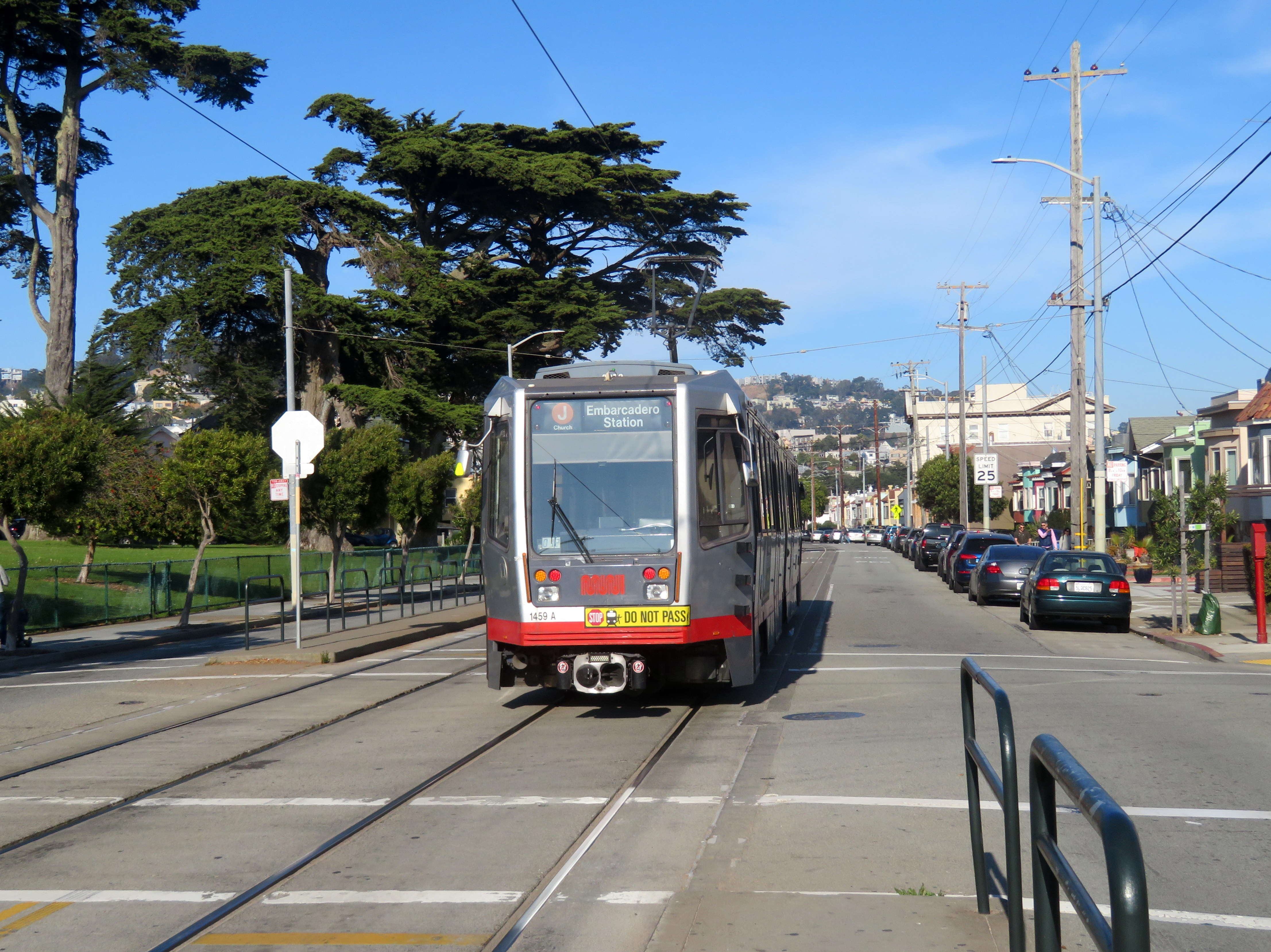 An inbound train at San Jose and Santa Ynez station in November 2019